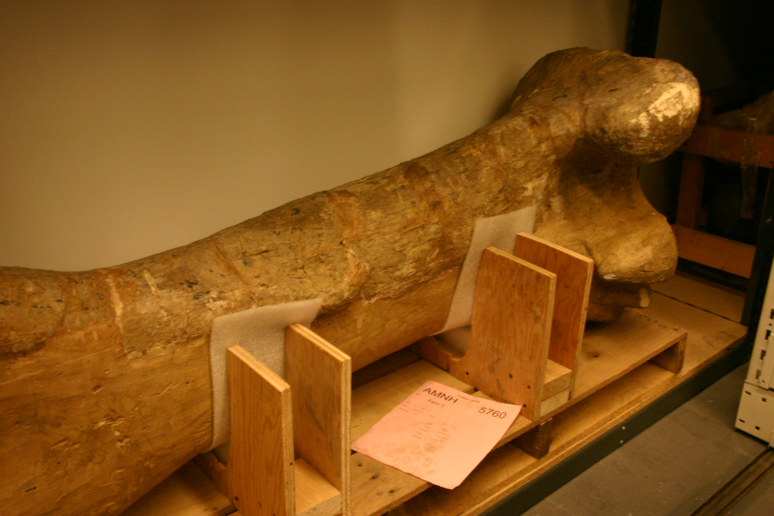 Femur 1 of the Camarasaurus supremus holotype, AMNH 5760.